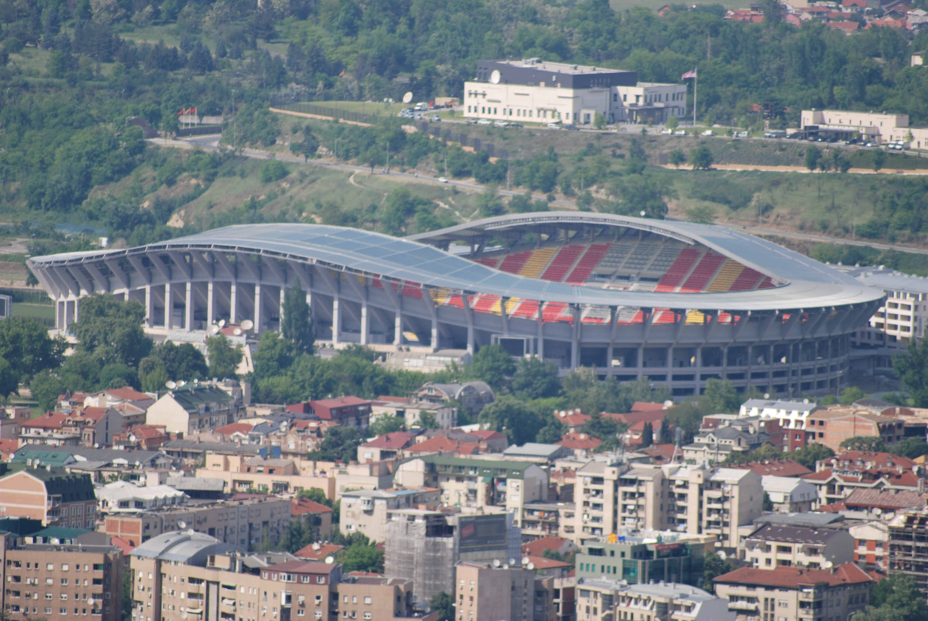 Skopje, Macedonia